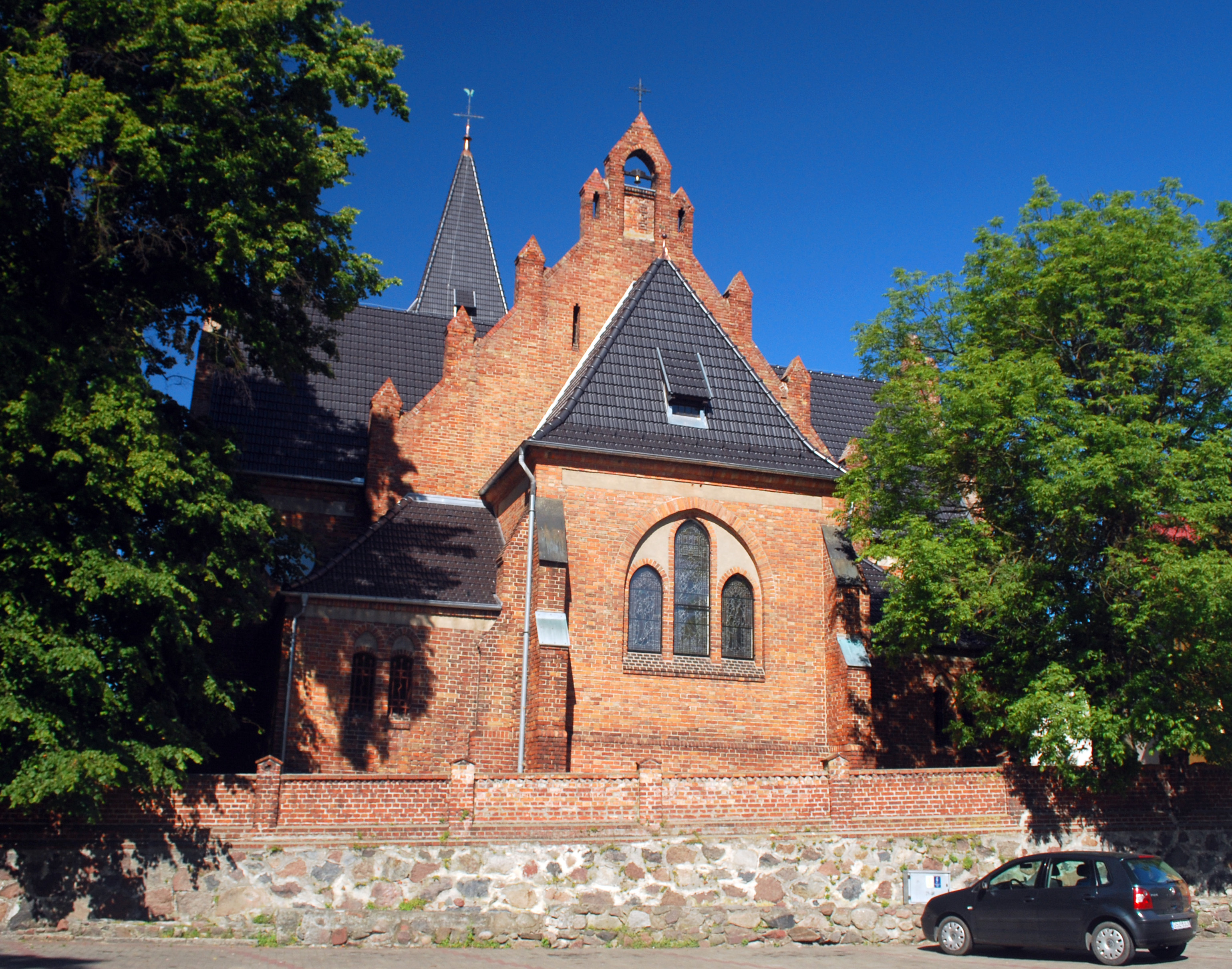 Saint Anne church in Sztum, Poland You can see all photographs in category Wikiekspedycja 2010. The making of this document was supported by Wikimedia Polska.